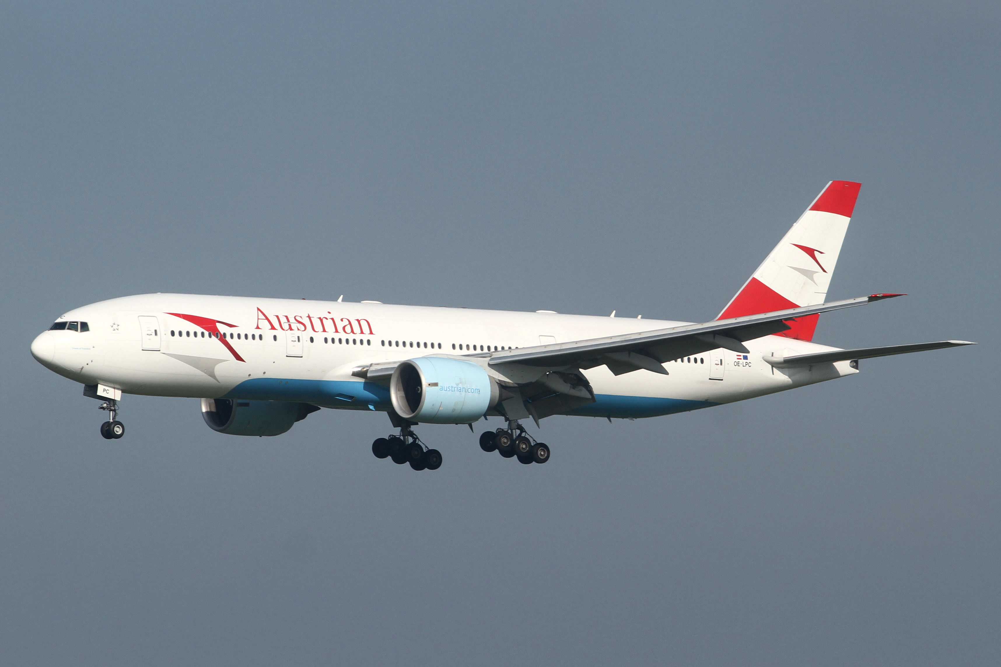 Narita International Airport, Boeing 777-2Z9/ER, c/n:29313, Austian Airlines